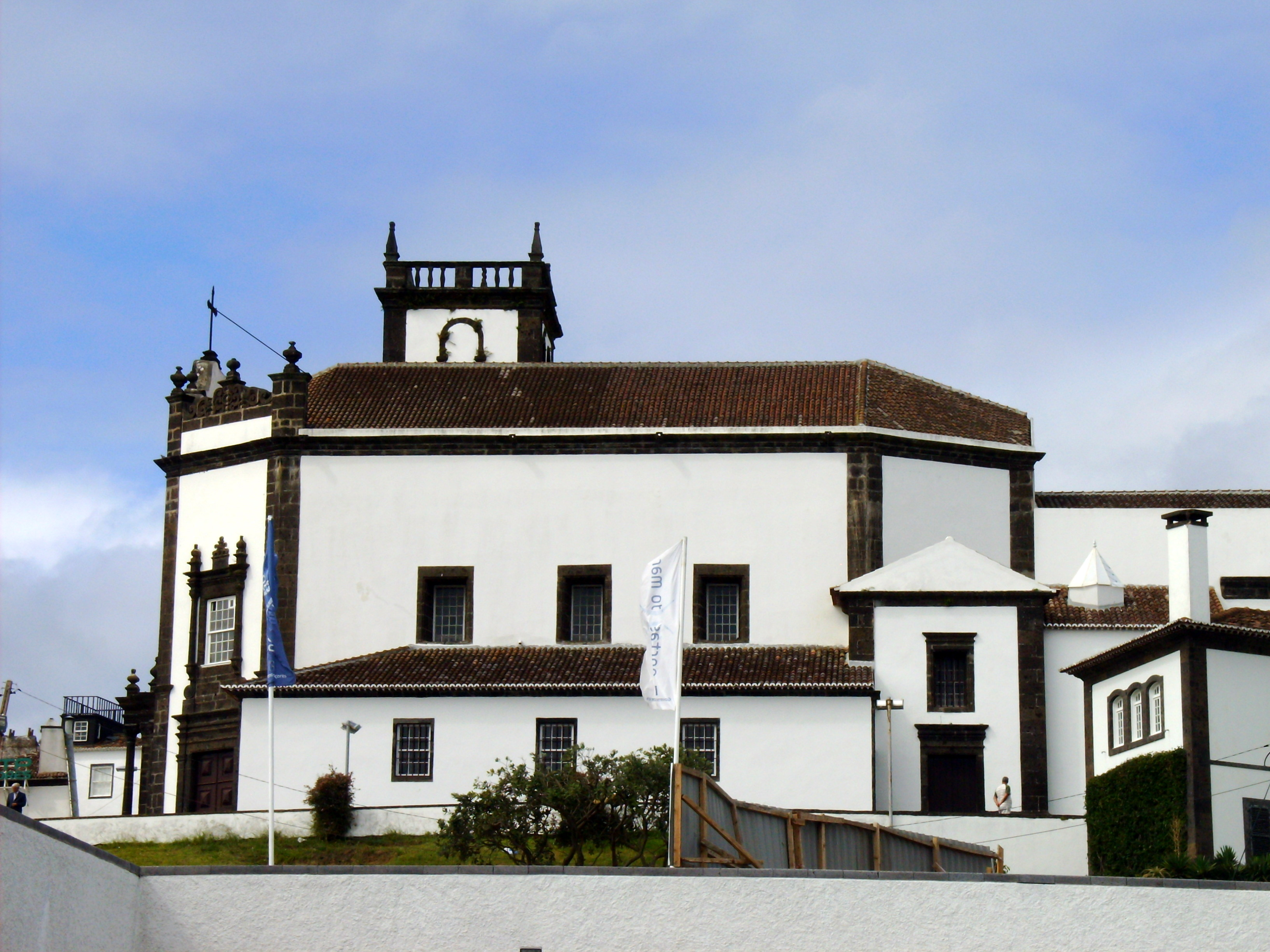 Lateral profile of the Church of São Pedro, São Pedro, Ponta Delgada, São Miguel (Azores), Portugal